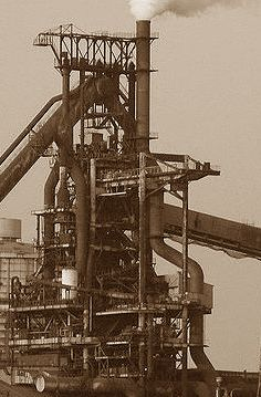 kintaroame-bill,nejisiki